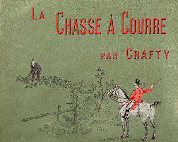 Cover page of the Book Chasse à courre by Crafty a french caricaturist